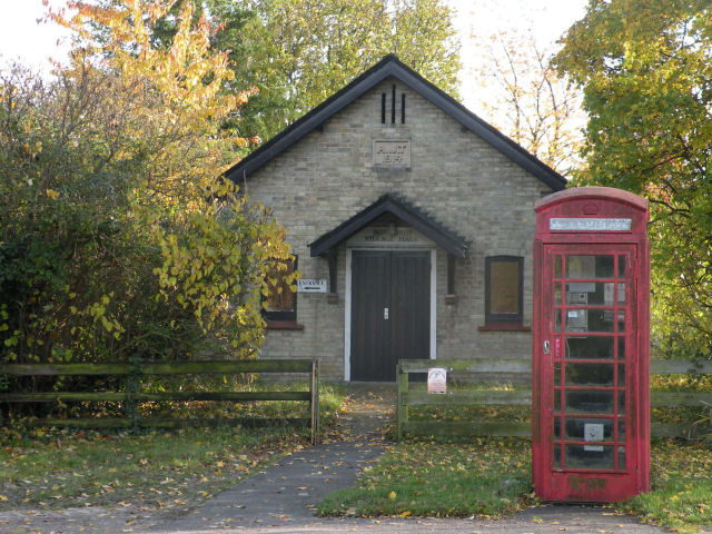 Boxworth village hall and phone box The hall has a date-stone A.J.T. 1914. The phone box, like most I have seen recently, has a removal consultation notice.